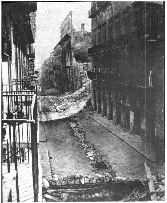 Palermo , after Garibaldi victory